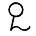 Symbol for Aether or Quintessence.